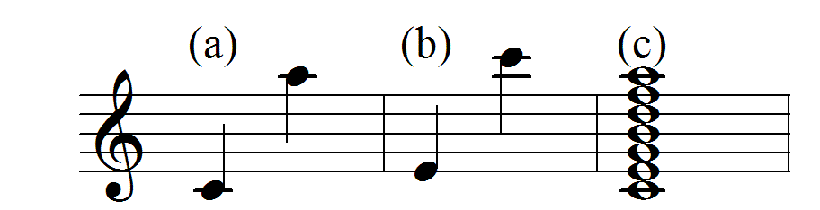 Major thirteenth, minor thirteenth, thirteenth chord.